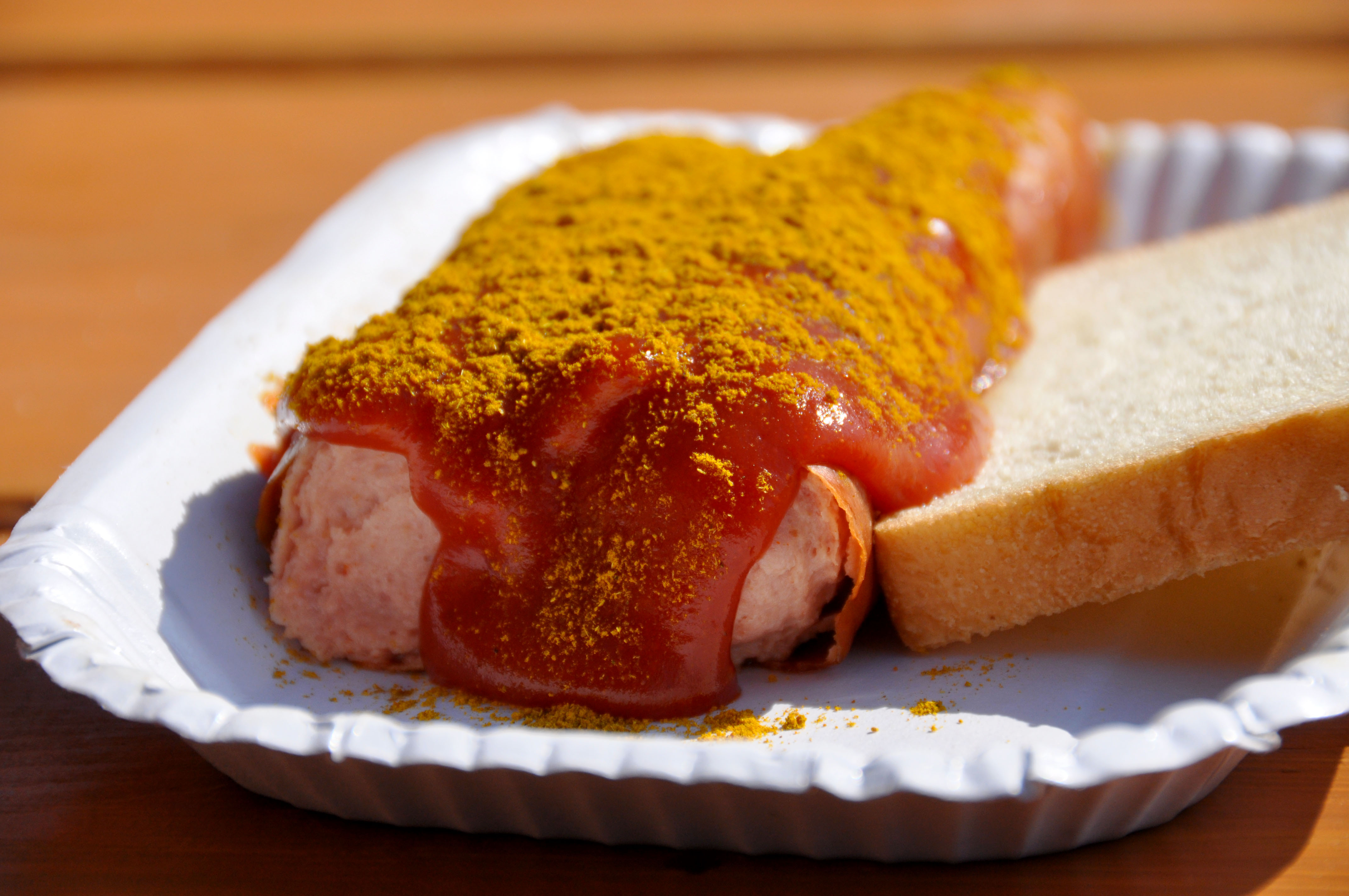 Currywurst med toast